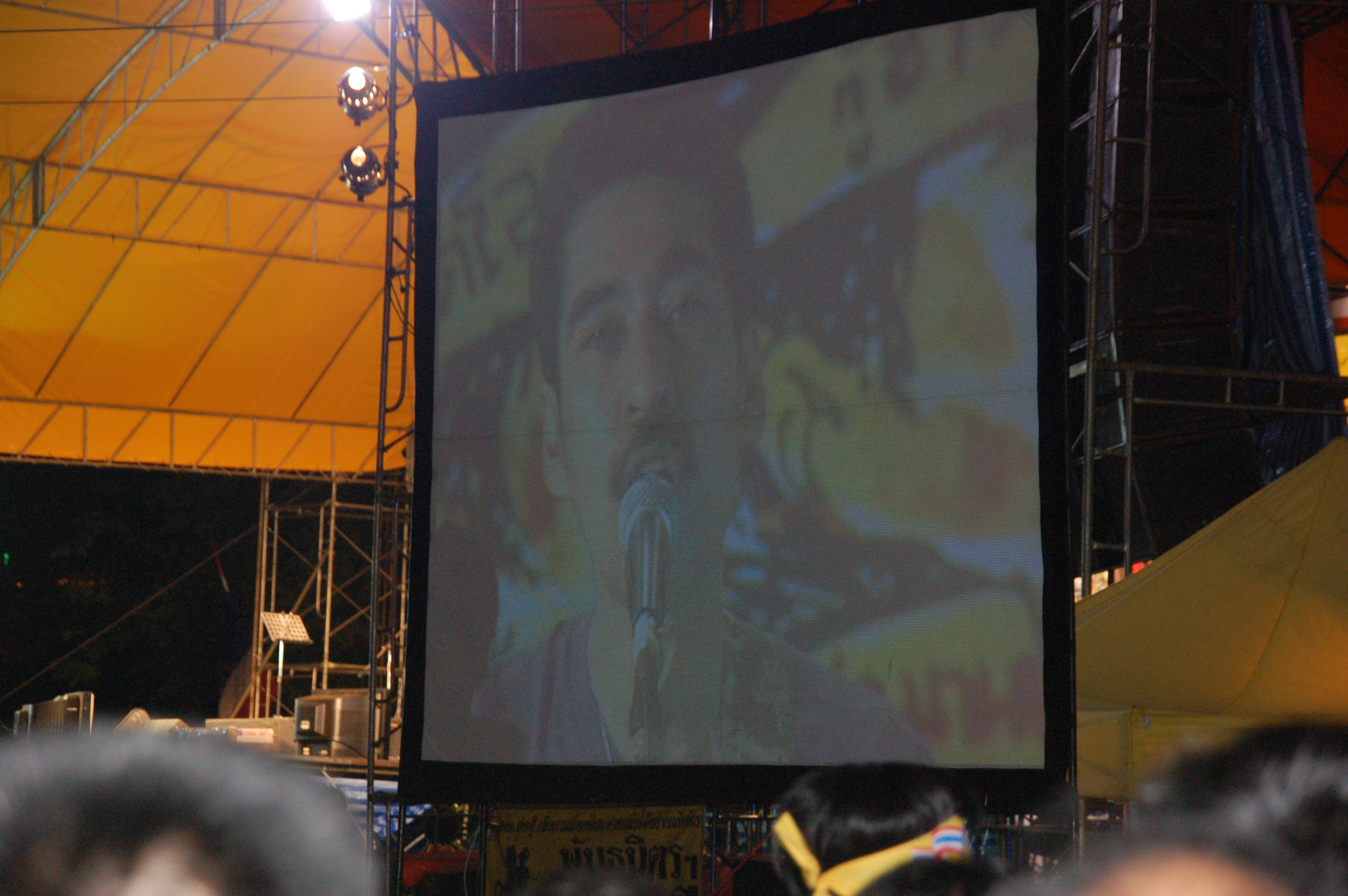 Hammer (แฮมเมอร์) at PAD rally at Makkawan bridge.